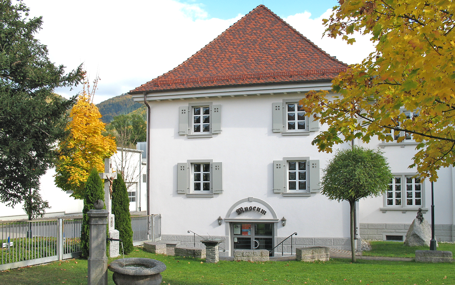 The textile museum of company Brennet in Wehr (Baden), Germany from the outside.